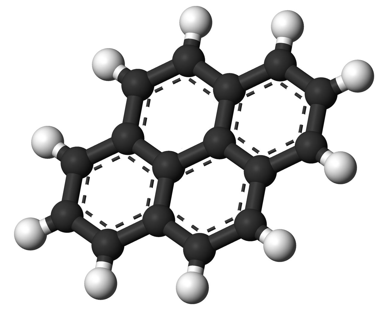 Ball and stick model of the Pyrene molecule.